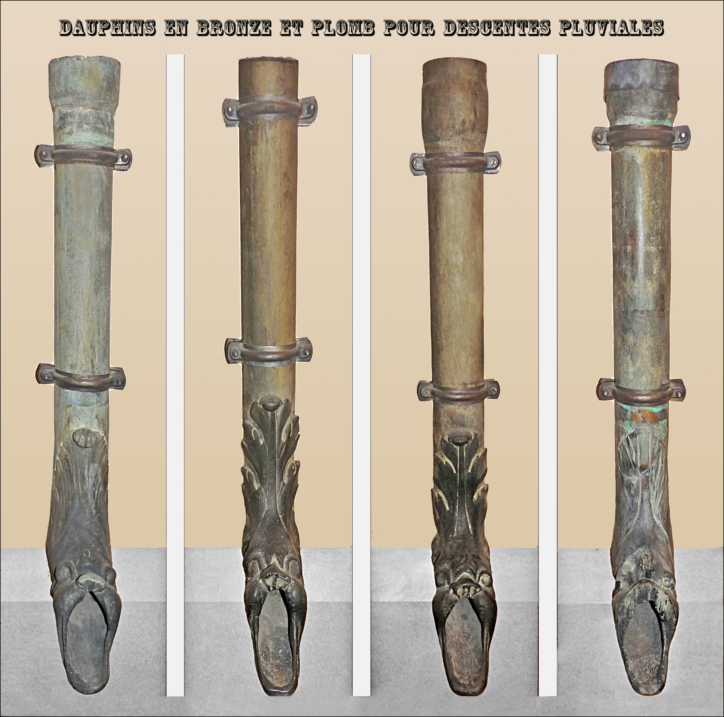 Bronze rain water downpipe.